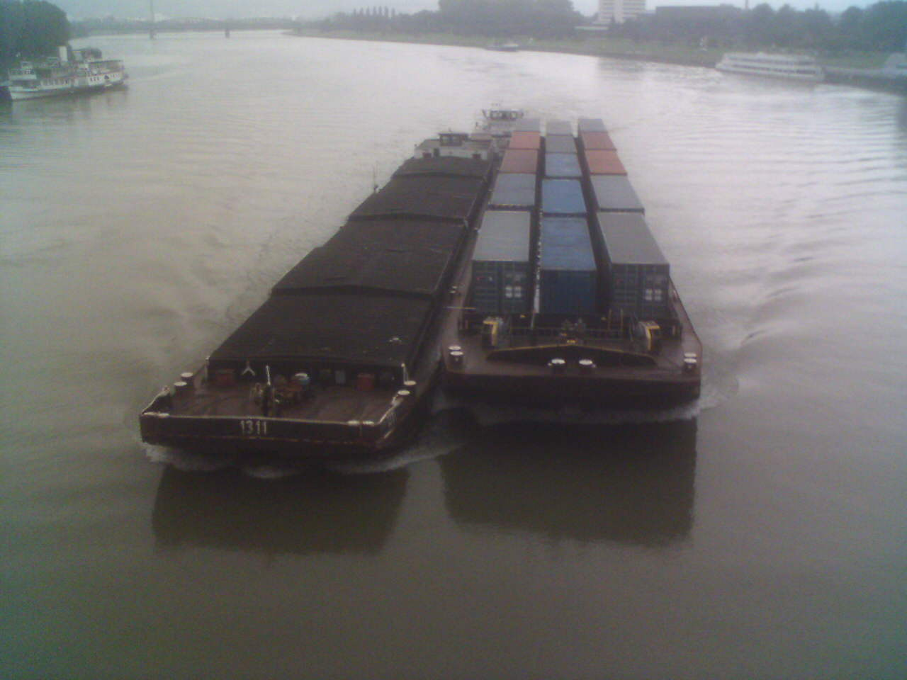 Austria, Linz, Danube